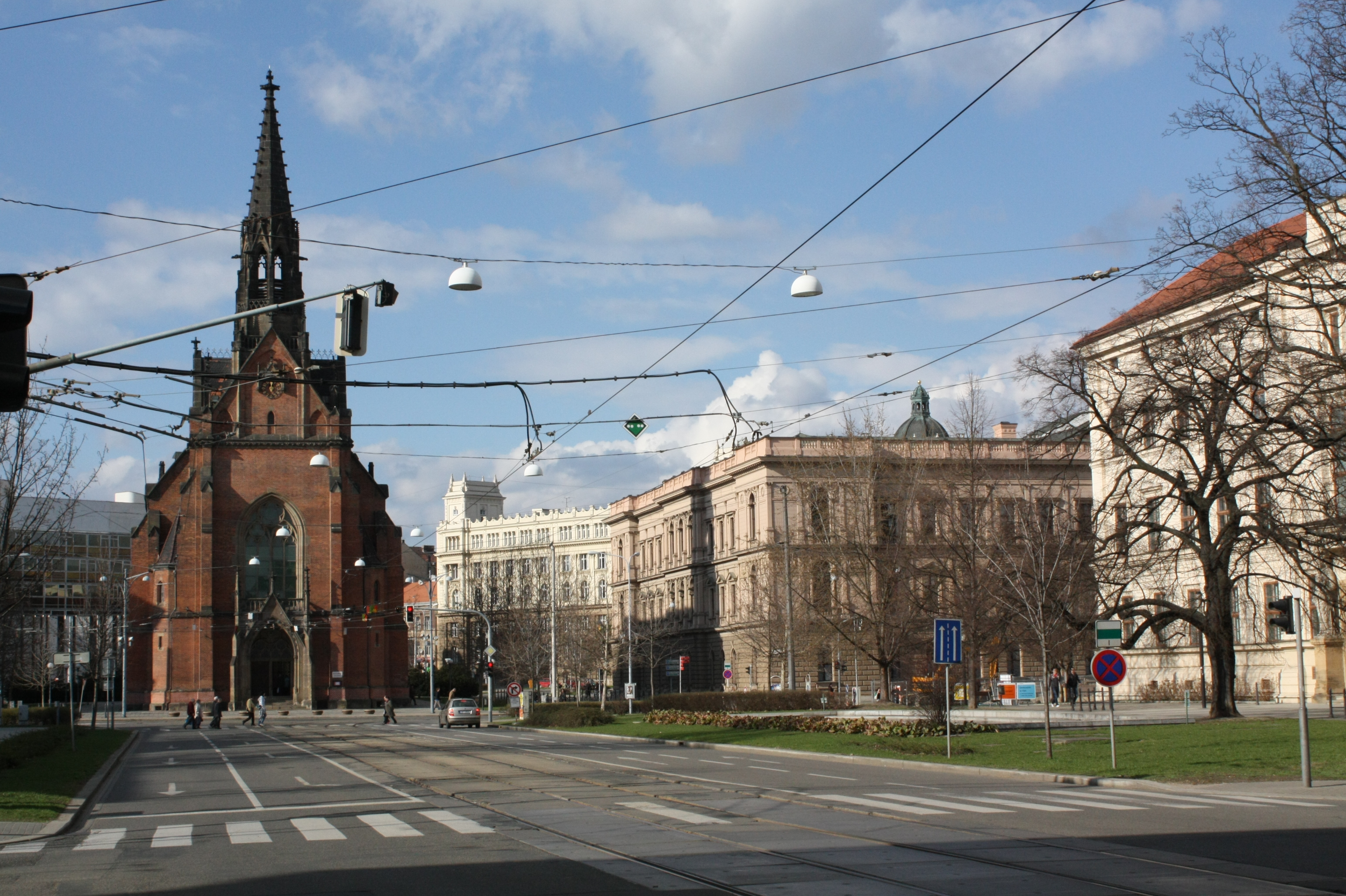 Komenský square, Brno, Czech Republic